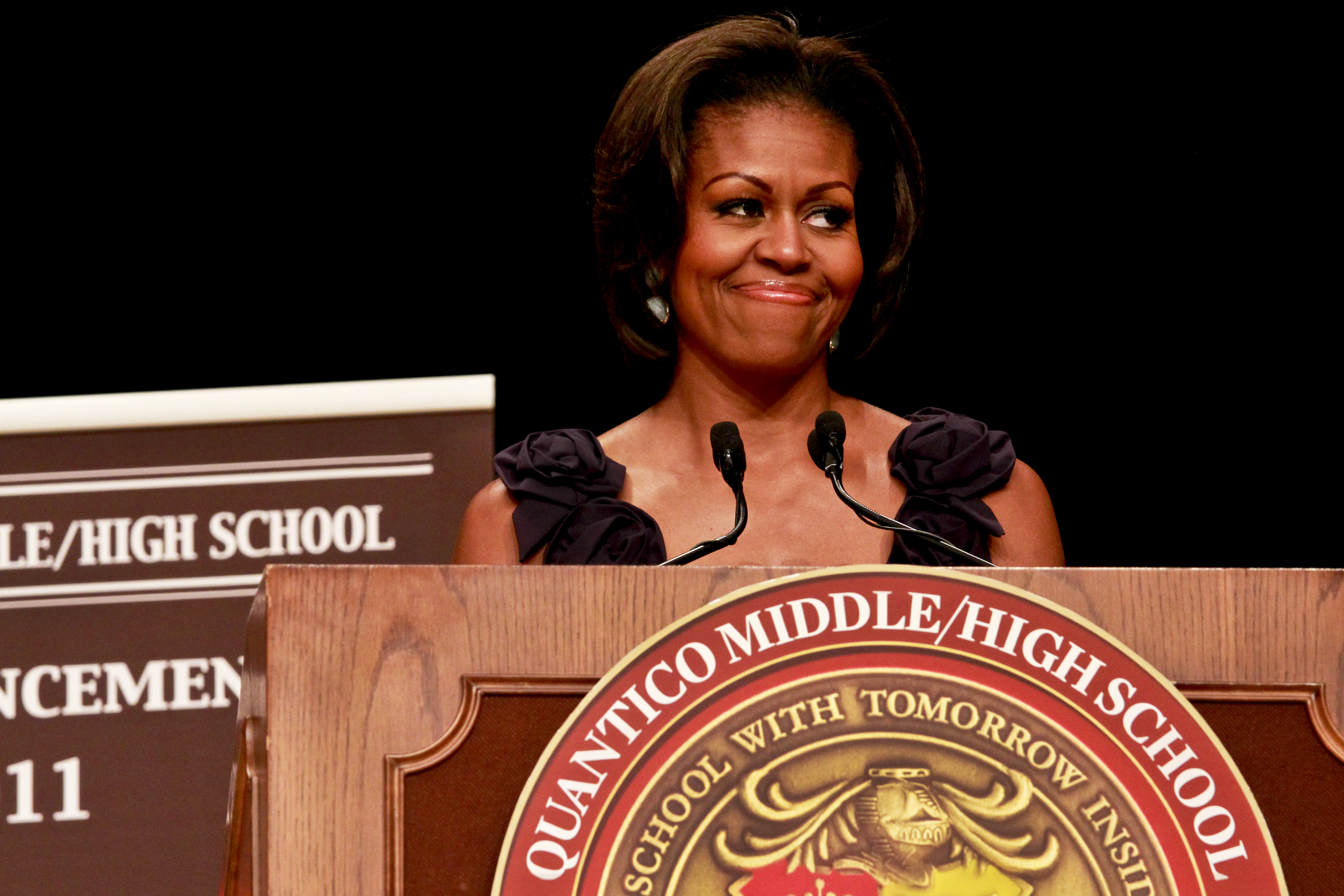 First Lady Michelle Obama gives the commencement address at Quantico Middle/High School on Marine Corps Base Quantico, Va., June 3, 2011. "I'm here because I think that all of you are incredibly special," she said, citing the resiliance they have gained from growing up in military families.